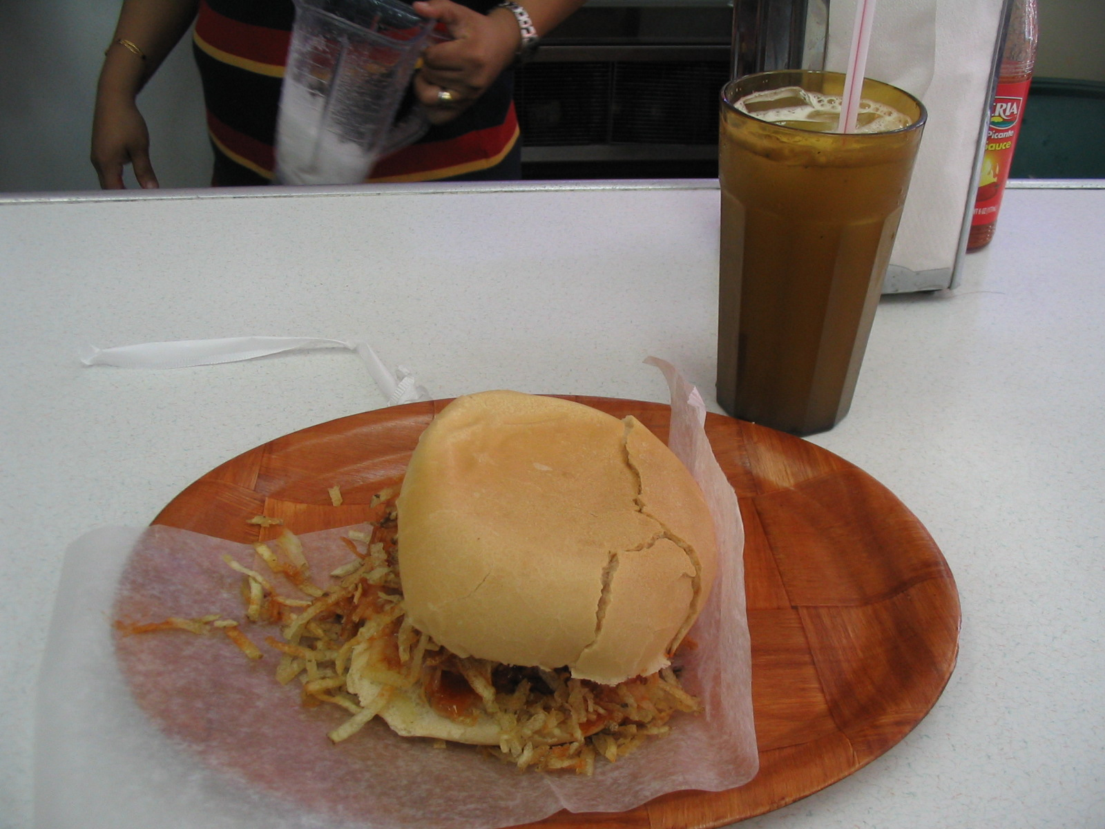 Frita (Cuban sandwich with fried onions) and guarapo (sugarcane juice)